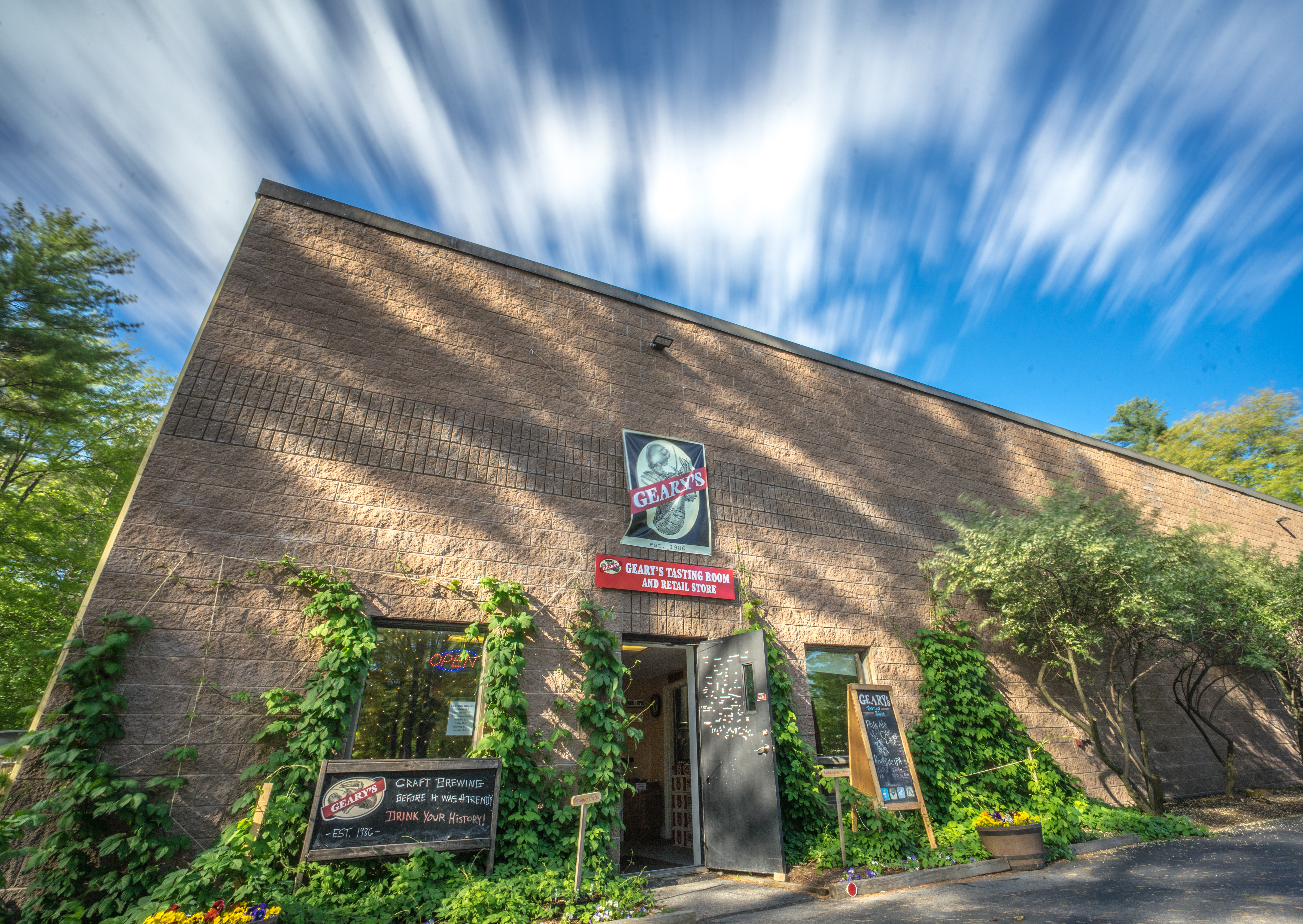 The original brewhouse now has a tasting room, with outdoor seating and hops plants growing up the side of the brick.